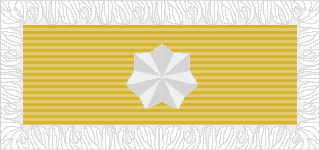 Meritorious Unit Citation with Federation Star, Australia